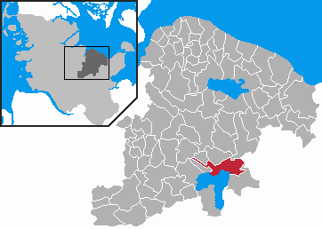 This map shows the area of the Stadt (town) Plön in the Kreis (district) Plön, Schleswig-Holstein, Germany.